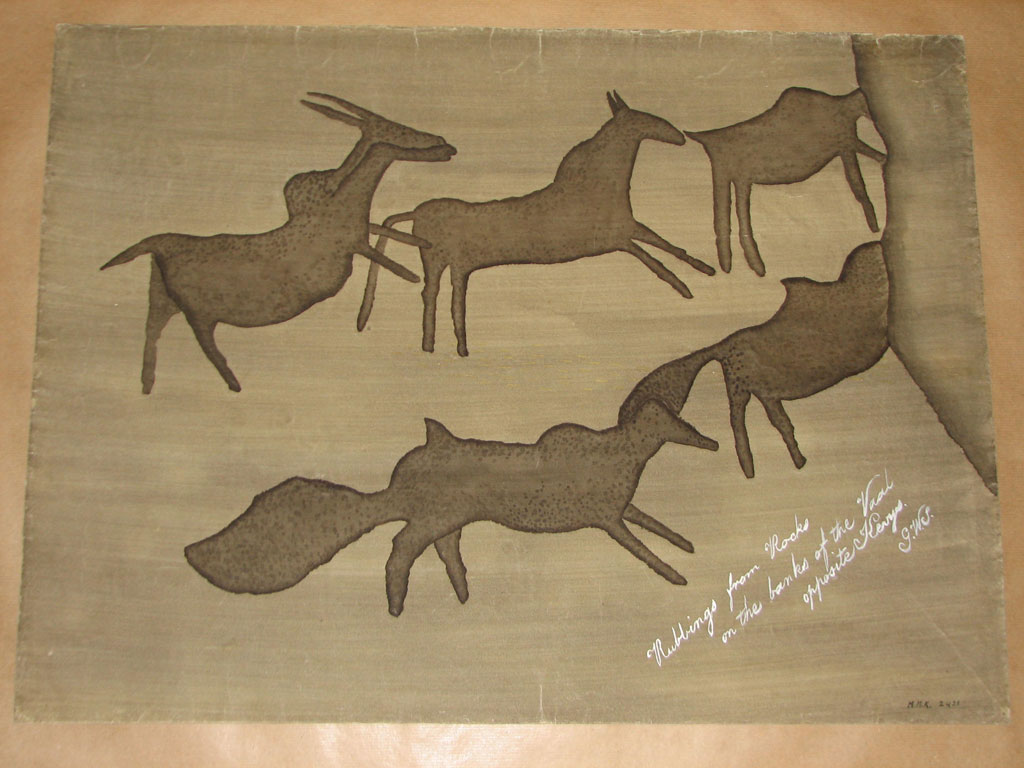 "Rubbings from rocks on the banks of the Vaal (River) opposit Kerrys 23 September 1867 G.W.S."